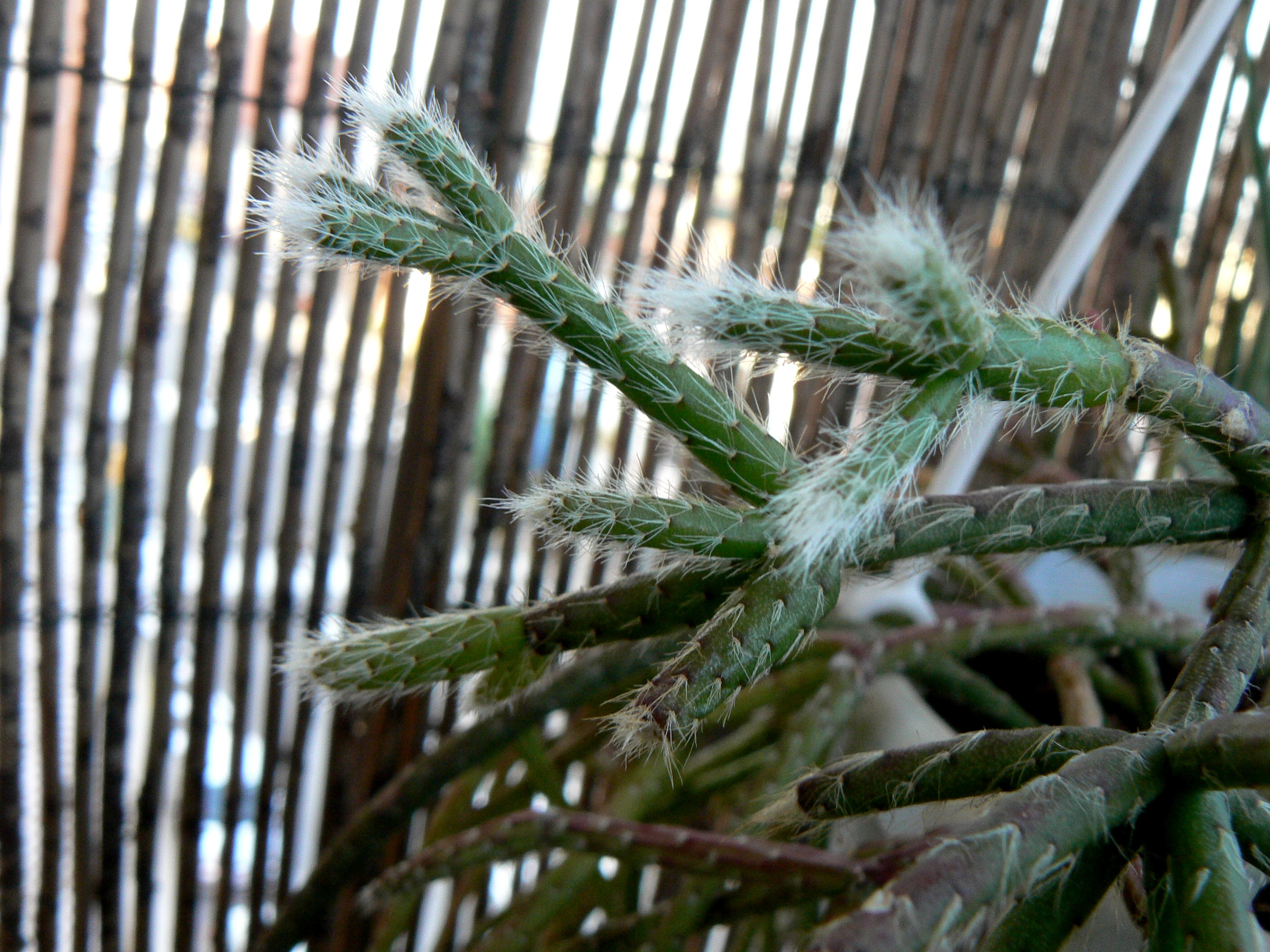 Rhipsalis pilocarpa